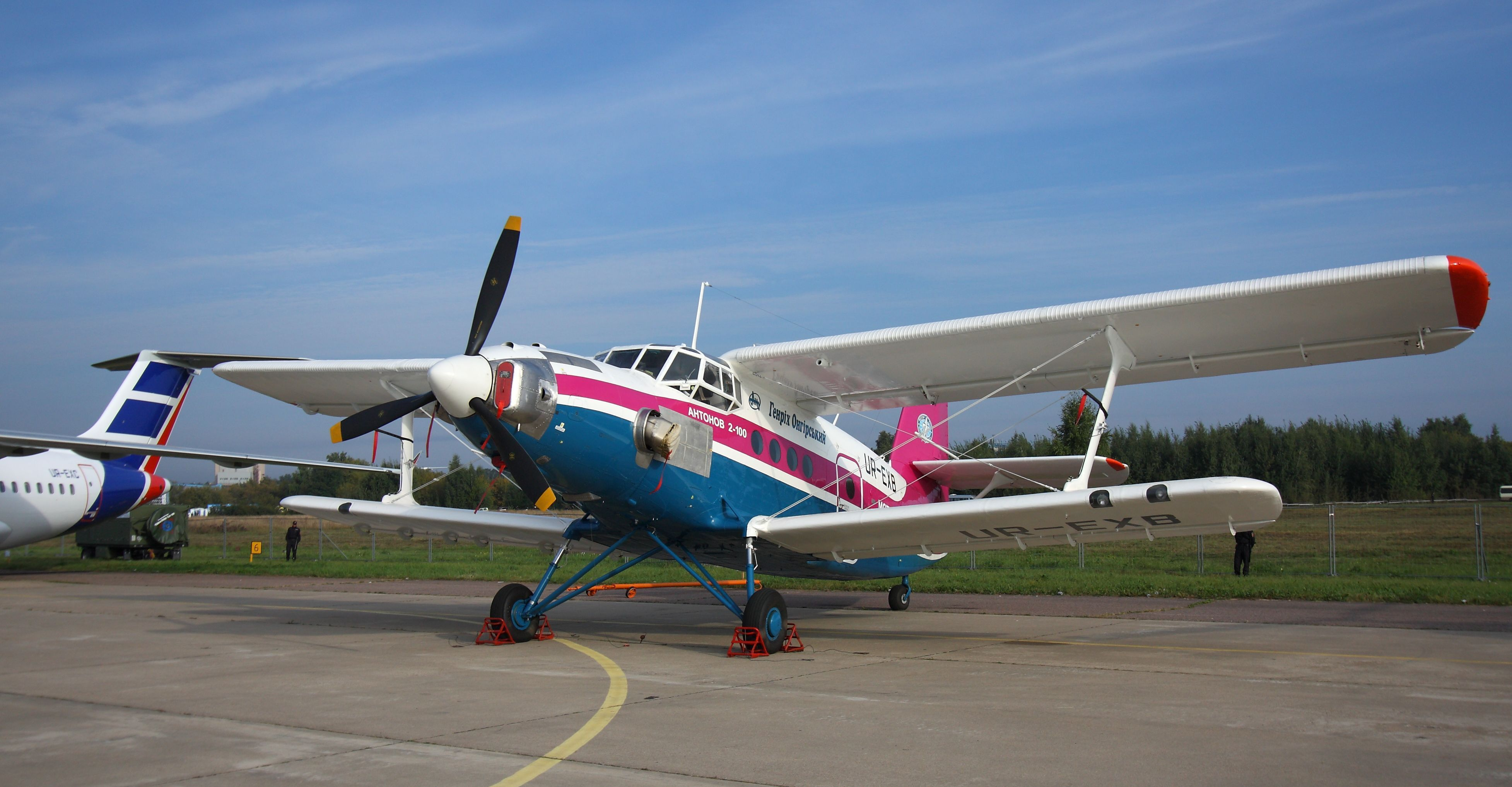 Antonov An-2-100 (The international aerospace salon MAKS-2013)